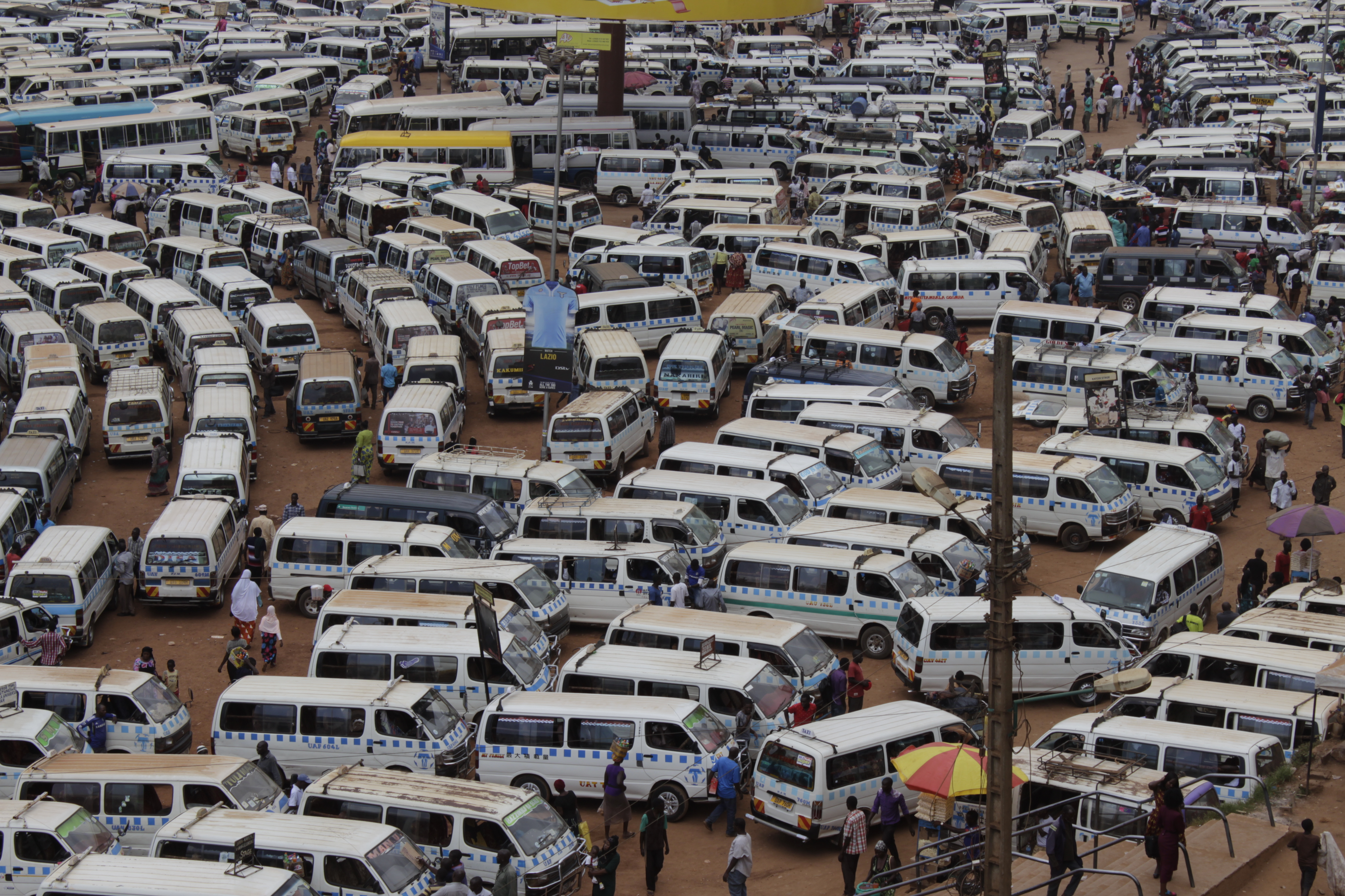 This is an image with the theme "Africa on the Move or Transport" from: Uganda